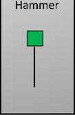 תבנית נר פטיש